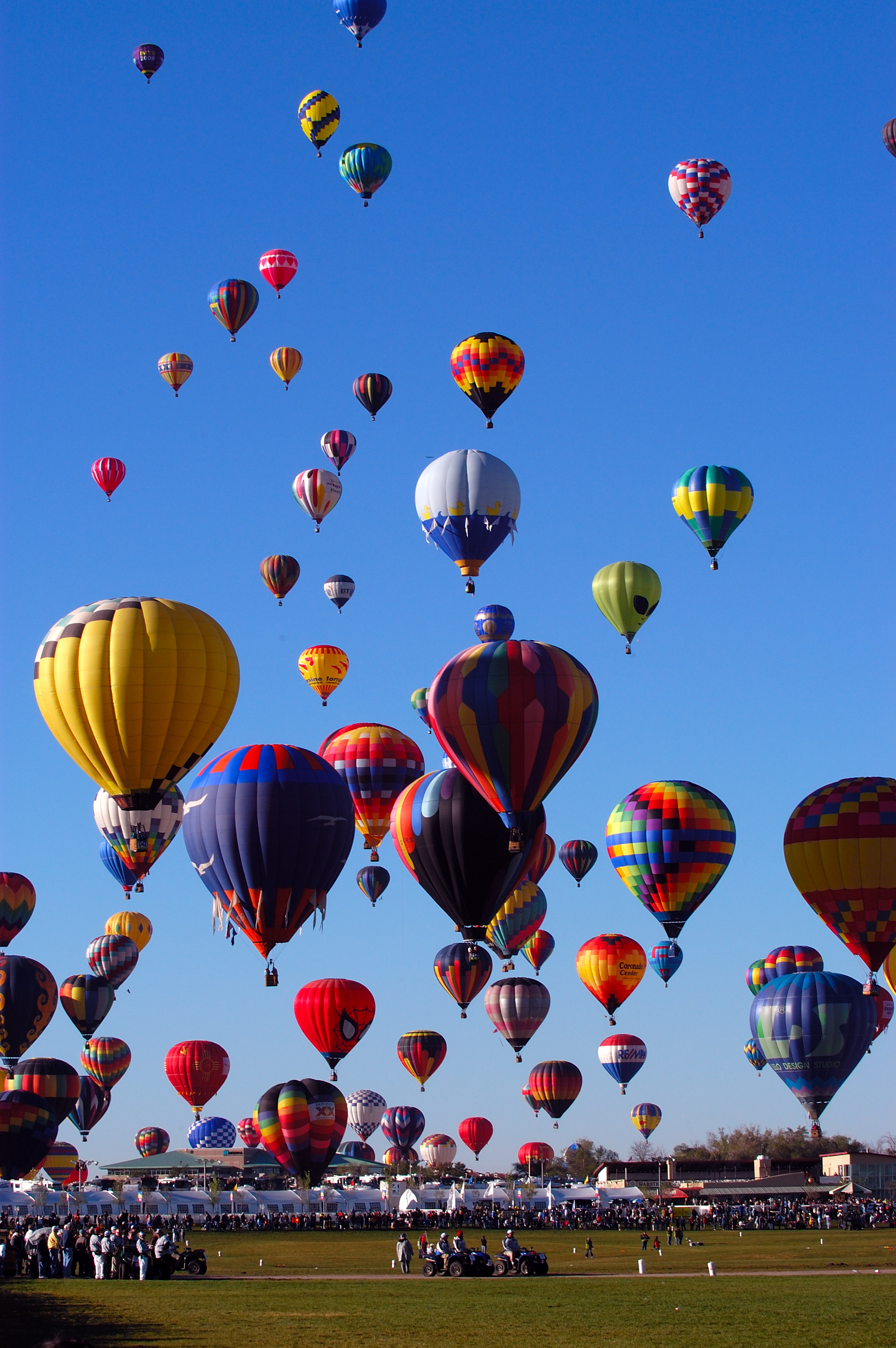 Balloon Fiesta of Albuquerque, New Mexico, United States.